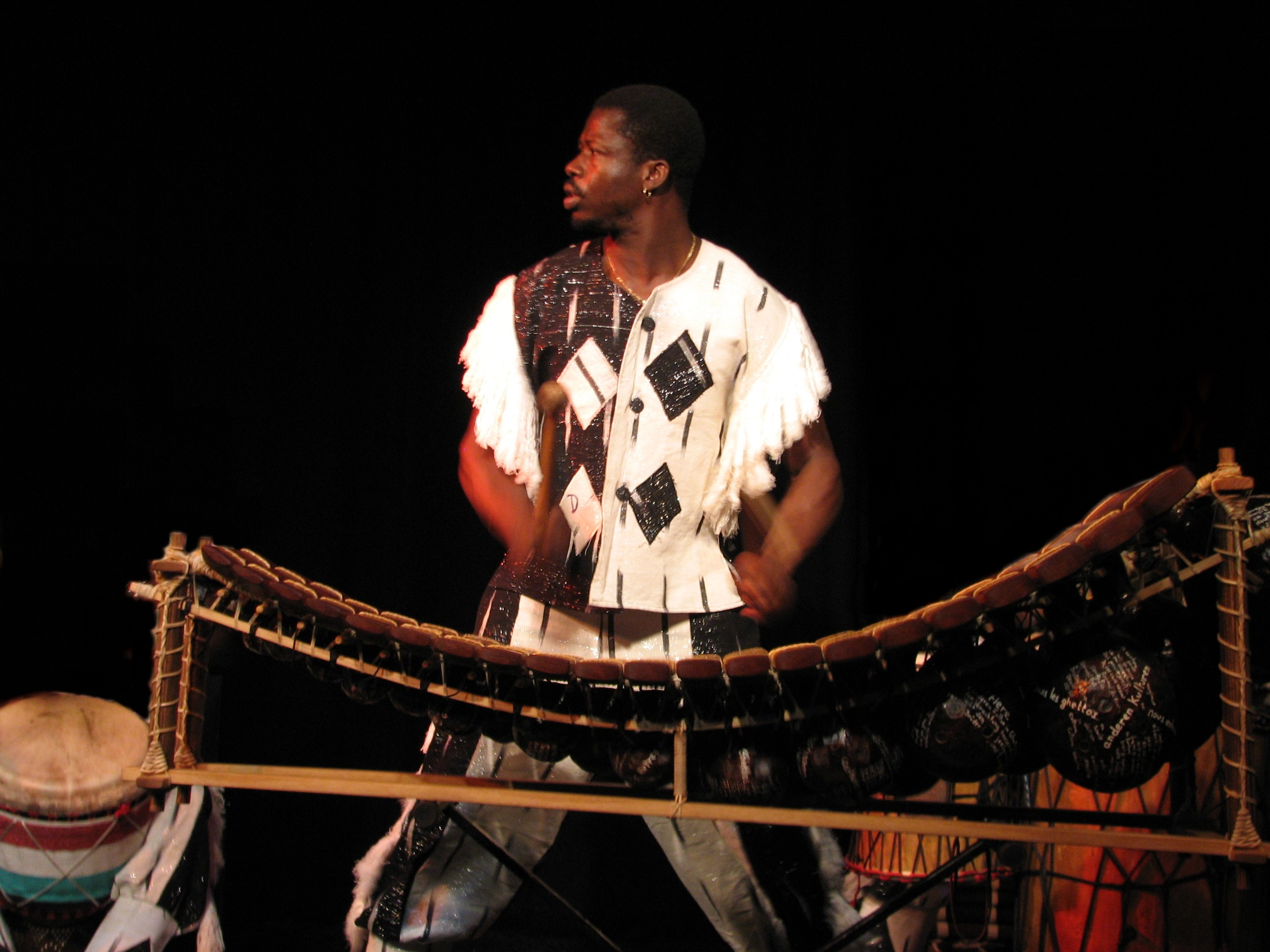 Mamadou Diabate